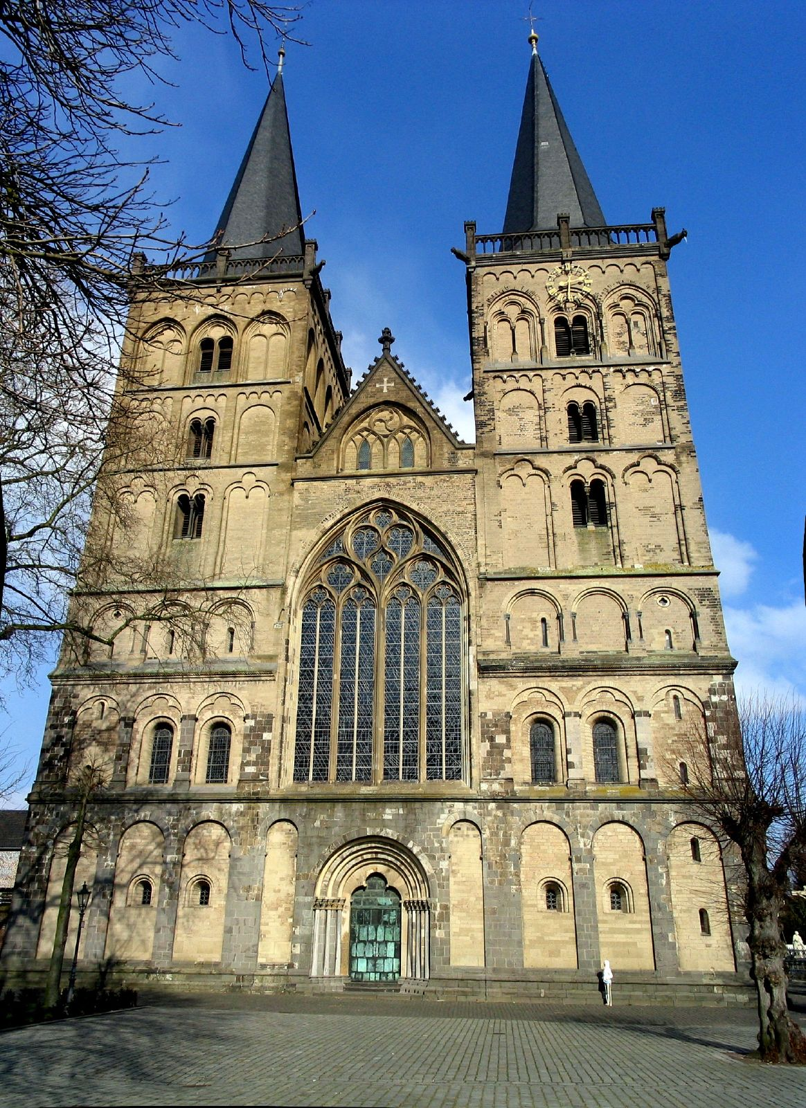 Xanten, Germany. Fassade of St. Victor church.